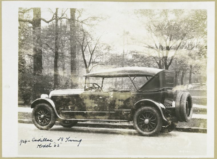 Cadillac 1925 V-63 Touring Car for Seven Passengers V8 Note: The year is incorrectly identified on the front of the photo. The nickel plated grille and headlights are indicators of a 1925 model whereas in 1924 these were black. Digital ID: 482011 Source: Photographs of General Motors and Chrysler car and truck models, 1902 - 1938. / 1902-1938. Cadillac - Chrysler - De Soto - Dodge - LaSalle - Plymouth. Photographs - Specifications. ( more info ) Repository: The New York Public Library. Science, Industry and Business Library. General Collection Division. See more information about this image and others at NYPL Digital Gallery . Persistent URL: Rights Info: No known copyright restrictions; may be subject to third party rights (for more information, click here )